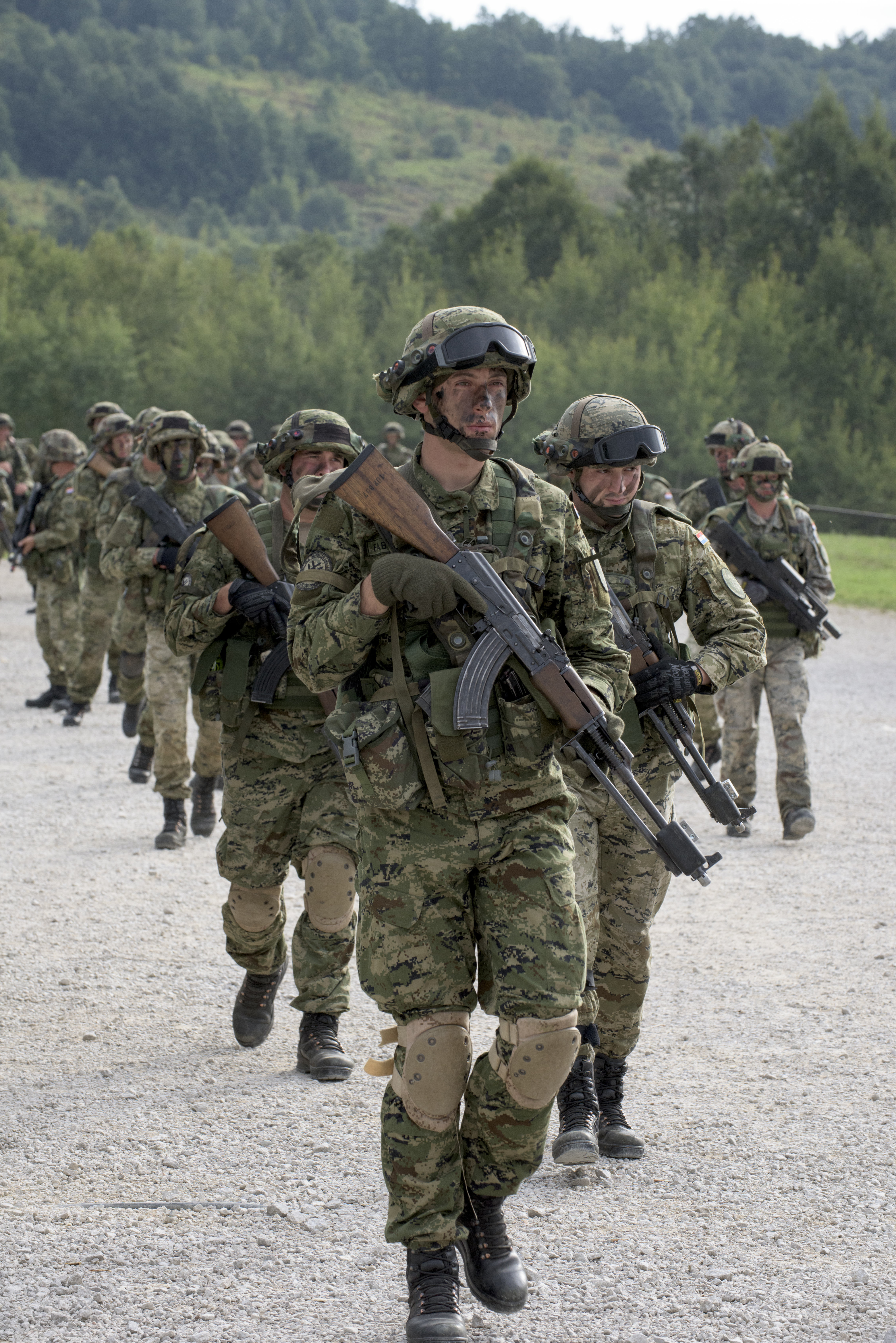 Soldiers participating in Immediate Response15 move out to the exercise area. Immediate Response 15 is a multinational, brigade-level exercise utilizing computer-assisted simulations and field training exercises in Croatia and Slovenia. The exercises and simulations are built upon a scenario designed to enhance regional stability, strengthen partner capacity and improve interoperability between partner nations. The exercise will run Sept. 9-22, 2015, and will include more than 1,400 soldiers from Albania, Bosnia-Herzegovina, Croatia, Kosovo, Macedonia, Montenegro, Slovenia, the U.S. and the United Kingdom. Immediate Response 15 supports the goal of a “Strong Europe” in that partner nations are trained and ready to combine forces to ensure unified security across allied nations. Immediate Response is a preplanned exercise that has occurred annually for the past five years. Photo by: U.S. Army Photo (Mr. Tony Sweeney)